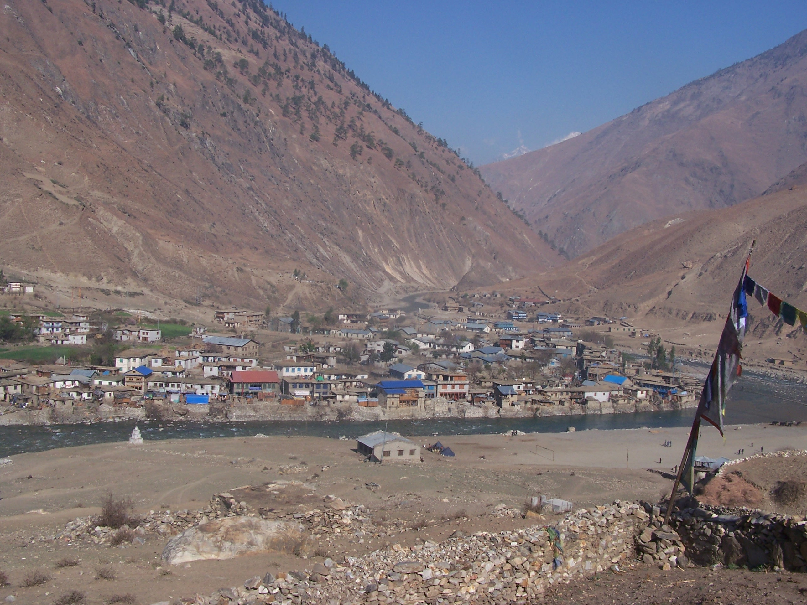 Dunai, Dolpo, Nepal